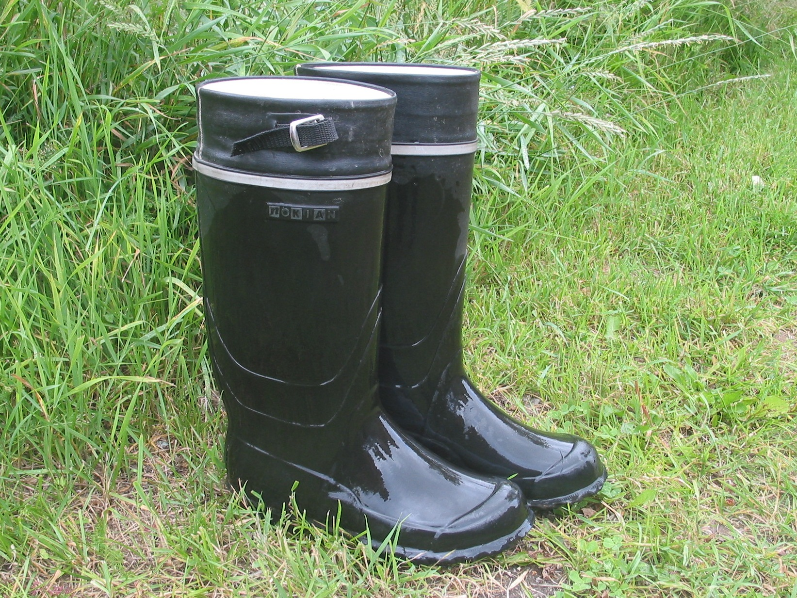 Nokian boots, made by Nokian Footwear, Finland